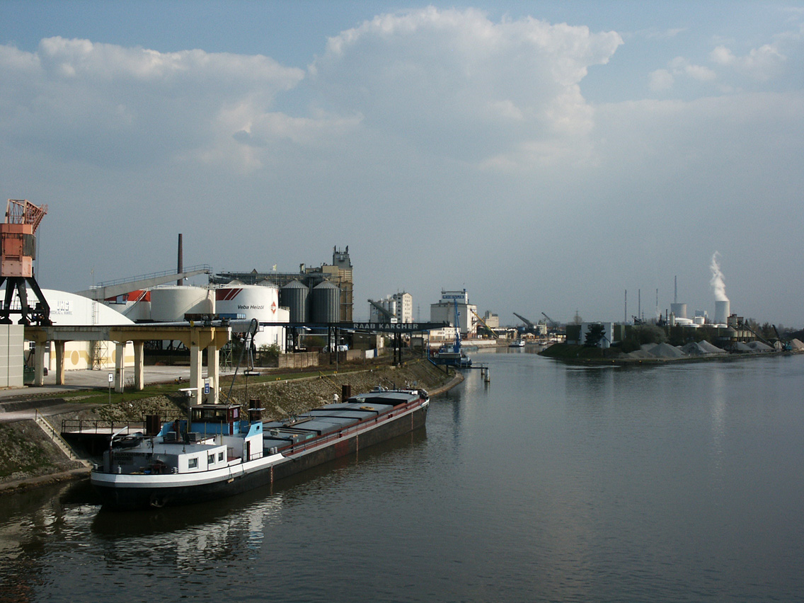 Port of Hanau